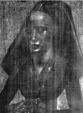 X-ray of Van der Weydens Portrait of a Lady